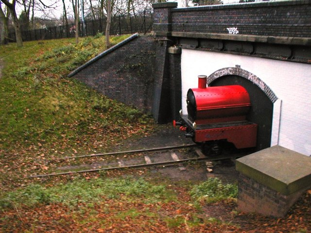 Train Sculpture, Woodthorpe Park A reminder of the days when the Nottingham Suburban Railway ran through the park via the Ashwell Tunnel. The railway was opened in 1889 and was built to serve the brickworks of Mapperley and Thorneywood but passenger trains were also ran. By 1901 passenger services were past their heyday with competition from the start of electric tram service into Nottingham and ceasing completely thirty years later. The brickworks traffic continued until 1951 when the line was finally closed.